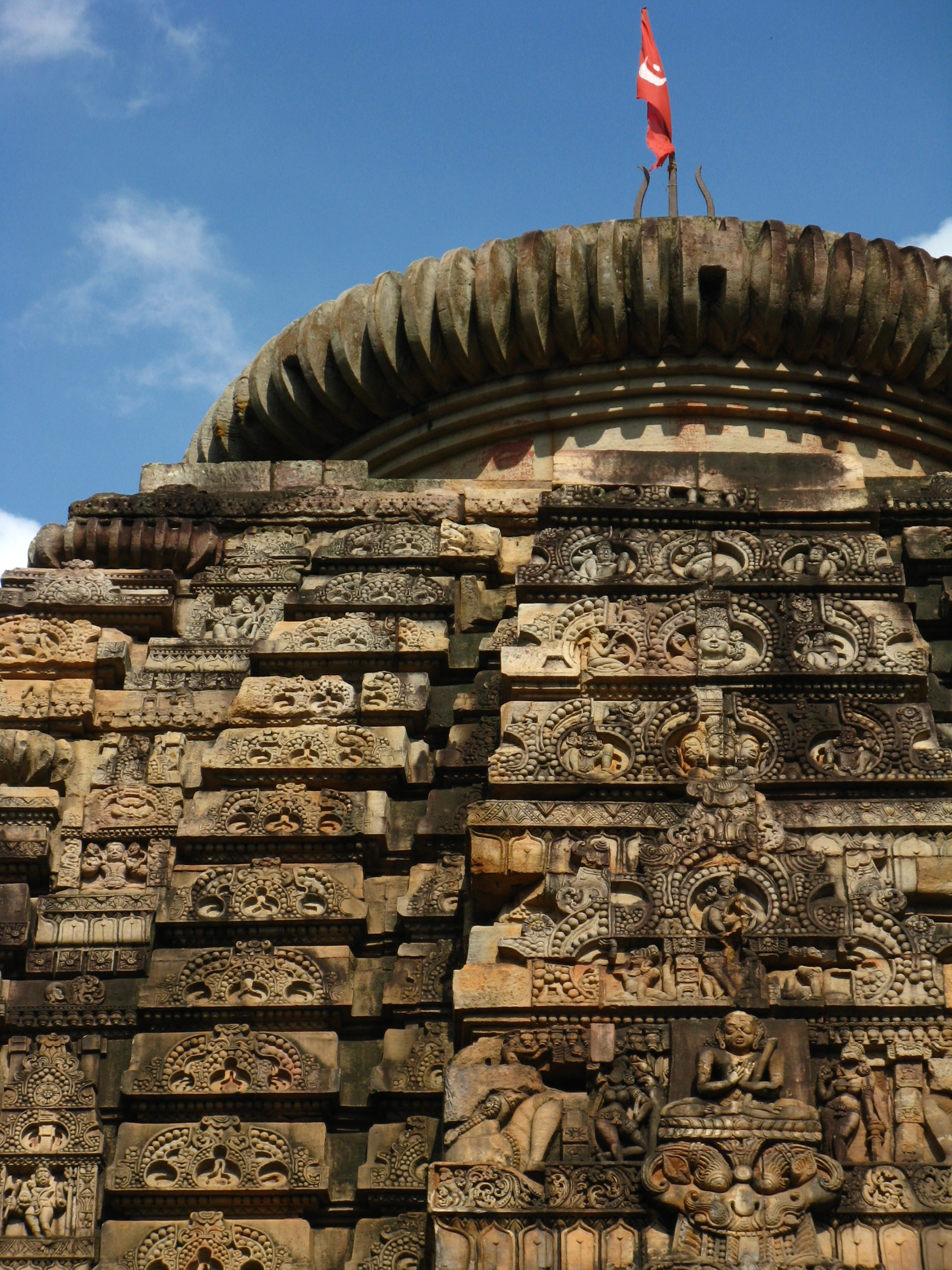 Bhuvaneshwar, Orissa